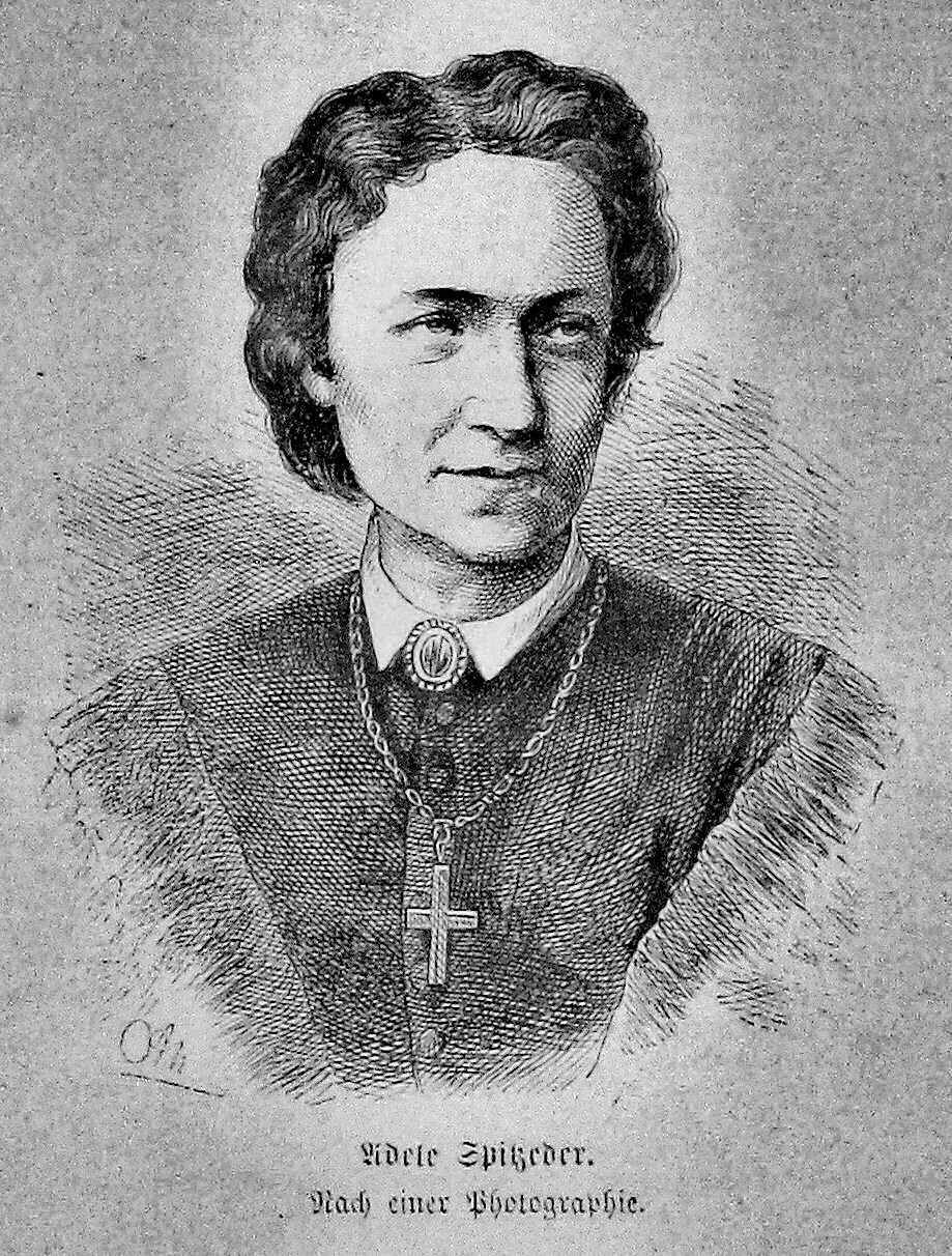 caption: "Adele Spitzeder. Nach einer Photographie."